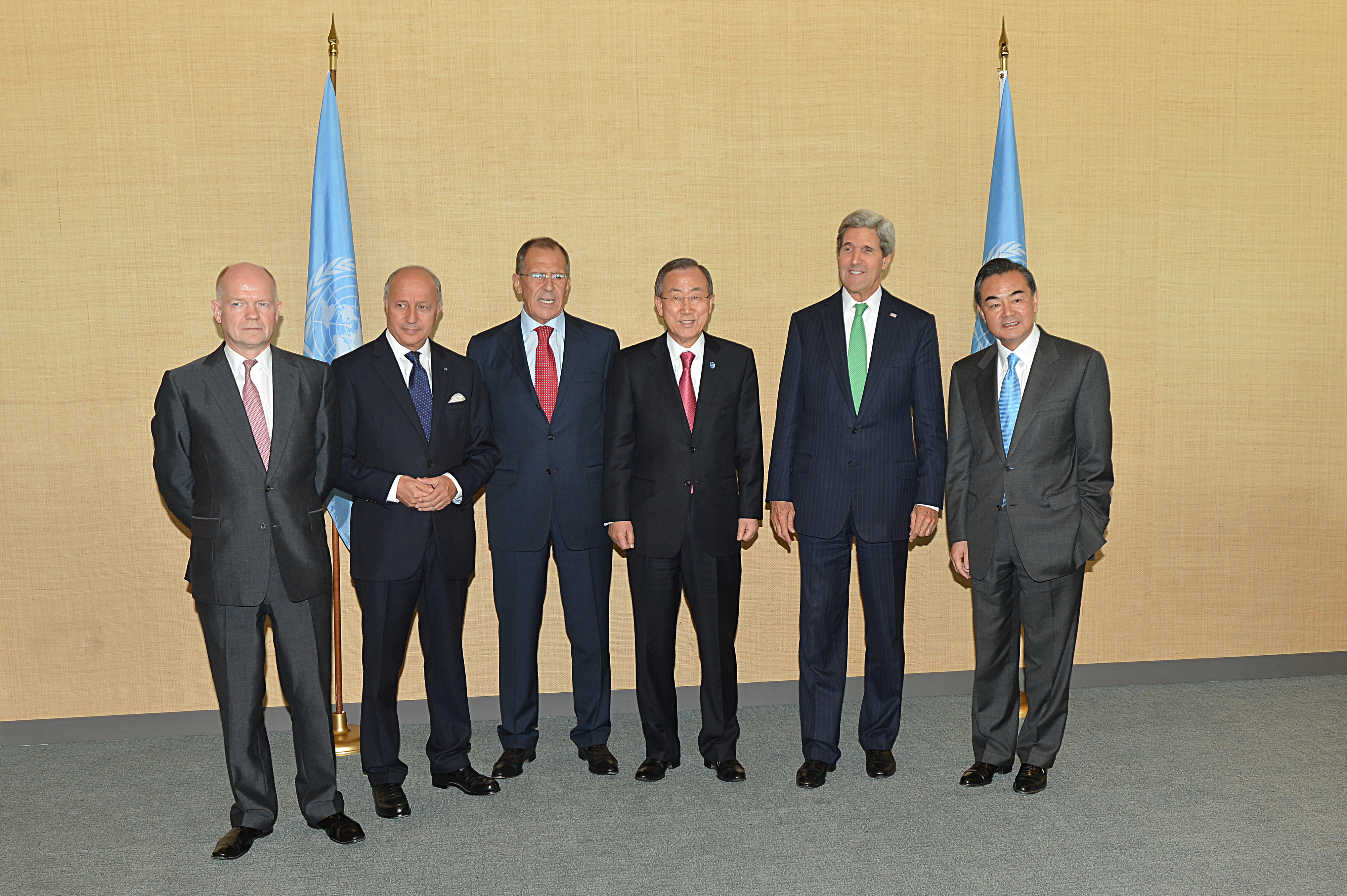 U.S. Secretary of State John Kerry meets with P5 members at the United Nations in New York City on September 25, 2013. [State Department photo/ Public Domain]